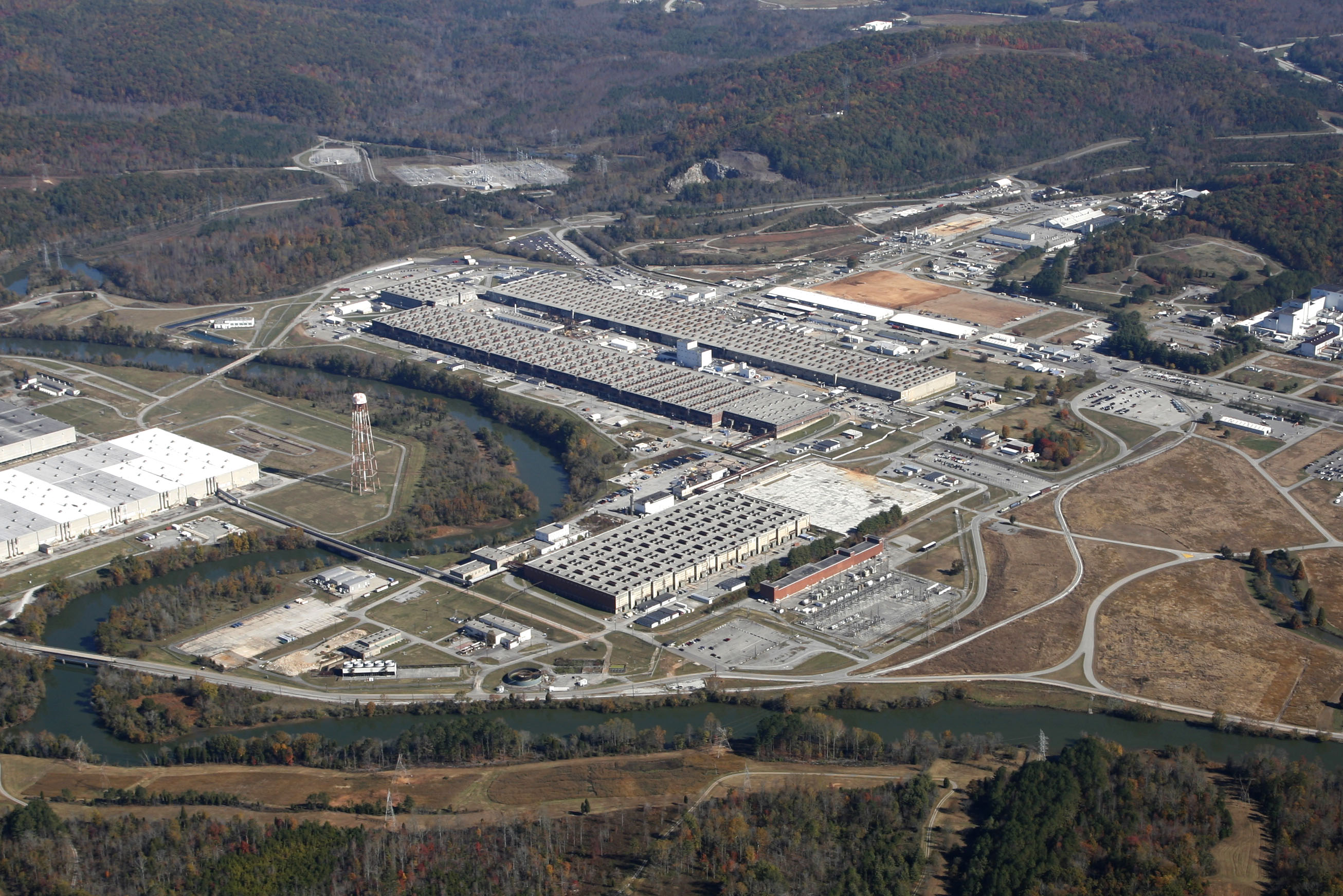 An aerial view of Oak Ridge’s East Tennessee Technology Park in 2006. The site, which dates back to the Manhattan Project, is a now a major cleanup area for the Office of Environmental Management.